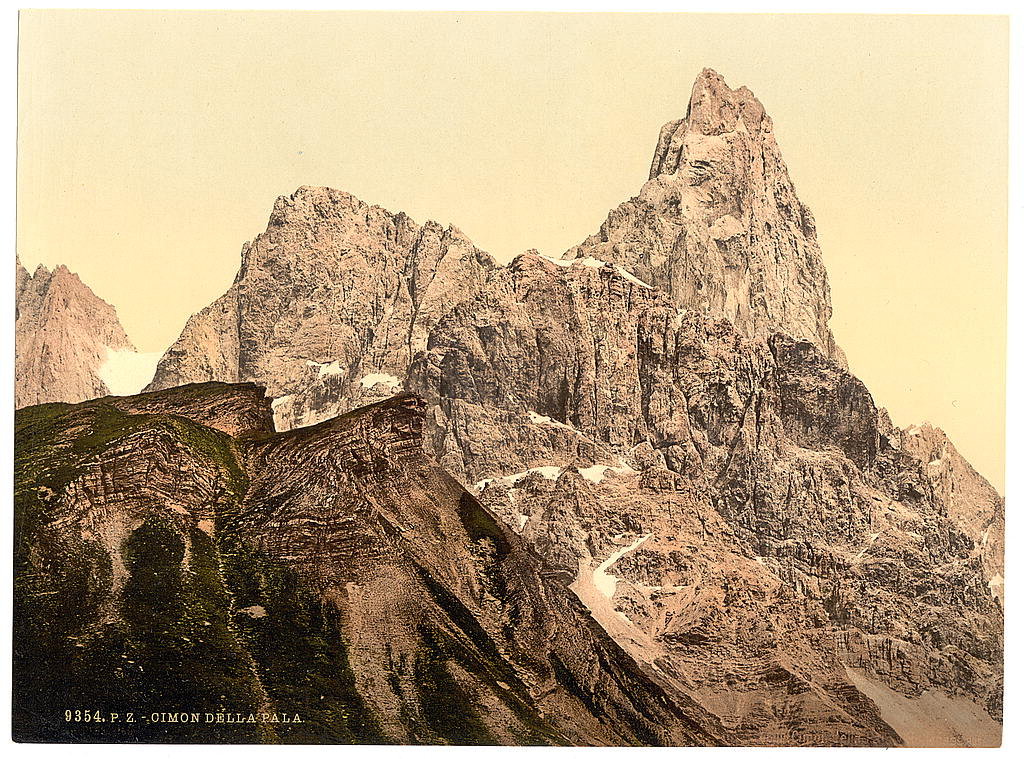 Print no. "9354".; Forms part of: Views of the Austro-Hungarian Empire in the Photochrom print collection.; Title from the Detroit Publishing Co., Catalogue J-foreign section, Detroit, Mich. : Detroit Publishing Company, 1905.